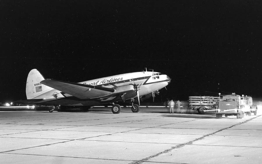 At Boise, Idaho, after a charter flight to transport members of the 195th Fighter Squadron CA ANG from Los Angeles to their summer camp at Gowen Field in August 1952.